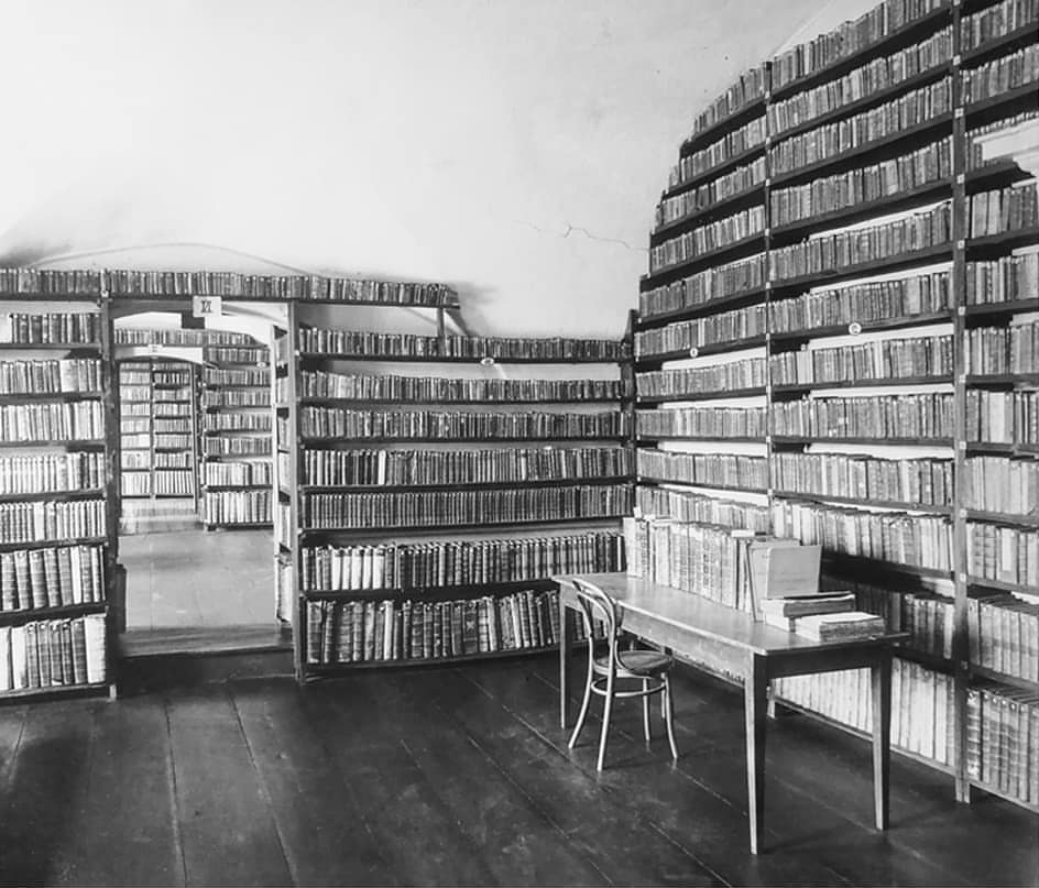 Library at the present-day Vilnius University